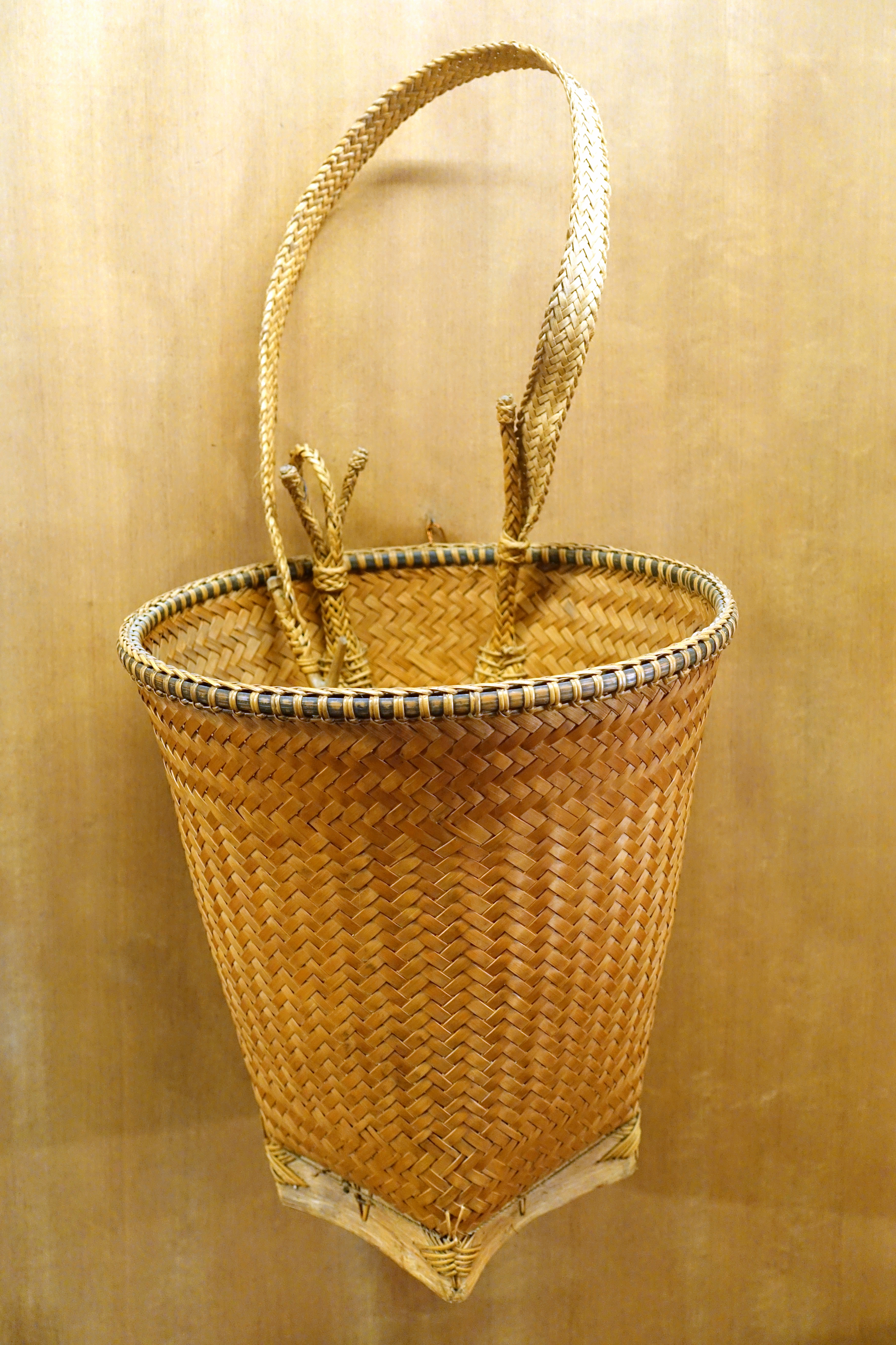 Exhibit in the Vietnam Museum of Ethnology - Hanoi, Vietnam.